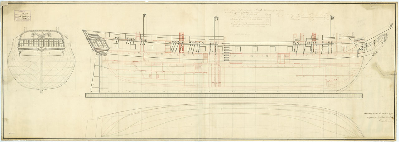 Melpomene (captured 1794) Scale: 1:48. Plan showing the body plan with stern board decoration and name in a cartouche on the counter, the sheer lines with inboard detail and figurehead, and longitudinal half-breadth for Melpomene (captured 1794), a captured French Frigate, as taken off at Chatham Dockyard having been fitted as a 38-gun Fifth Rate Frigate. Note that the plan shows her with a fairly typical French layout of wheel abaft the mizzen and a single set of anchor bitts on the upper deck. MELPOMENE FL.1794 [FRENCH]